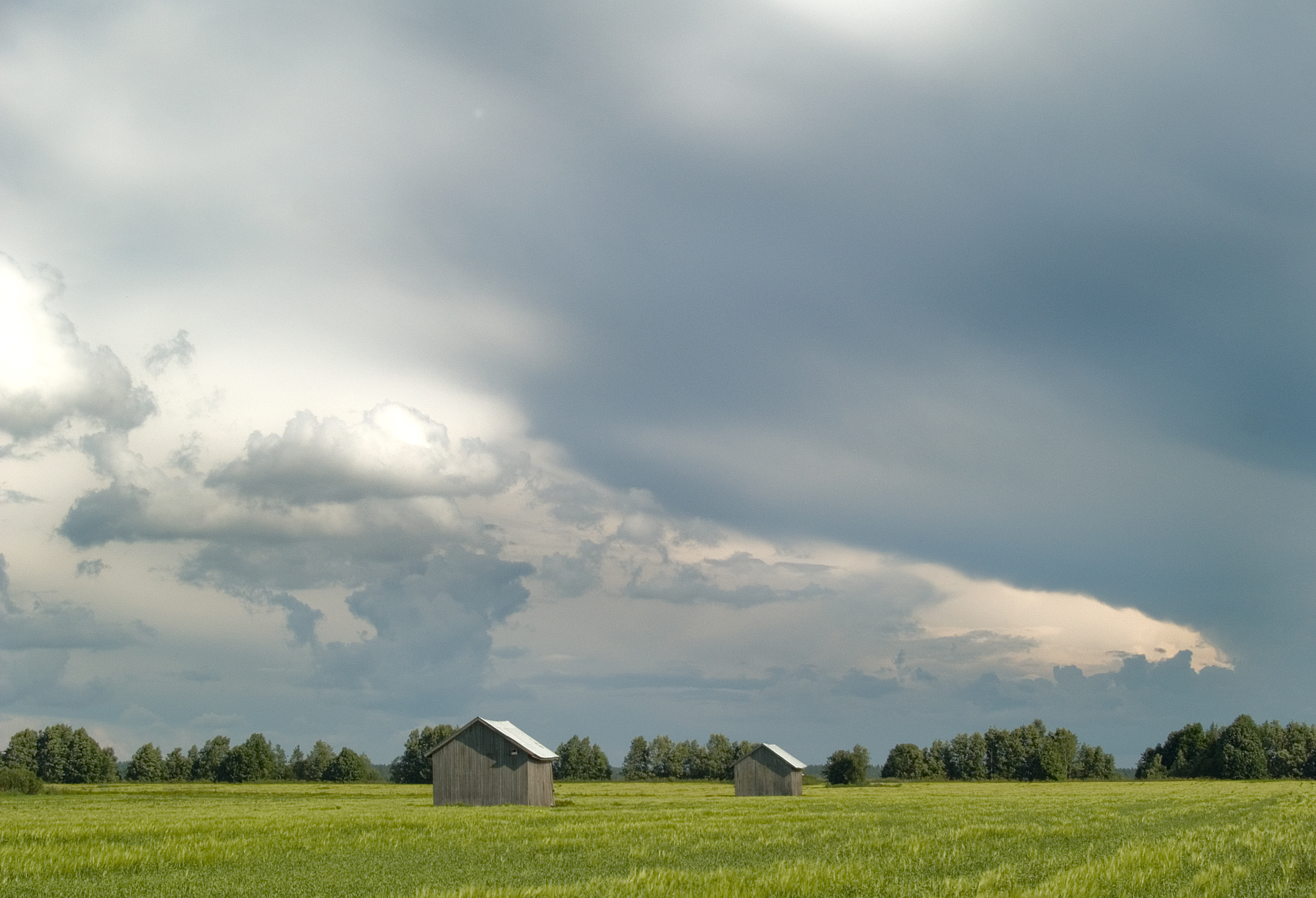 Flat landscape of the Alajoki area in Ilmajoki, Finland. The river Kyrönjoki runs behind the trees in the background.